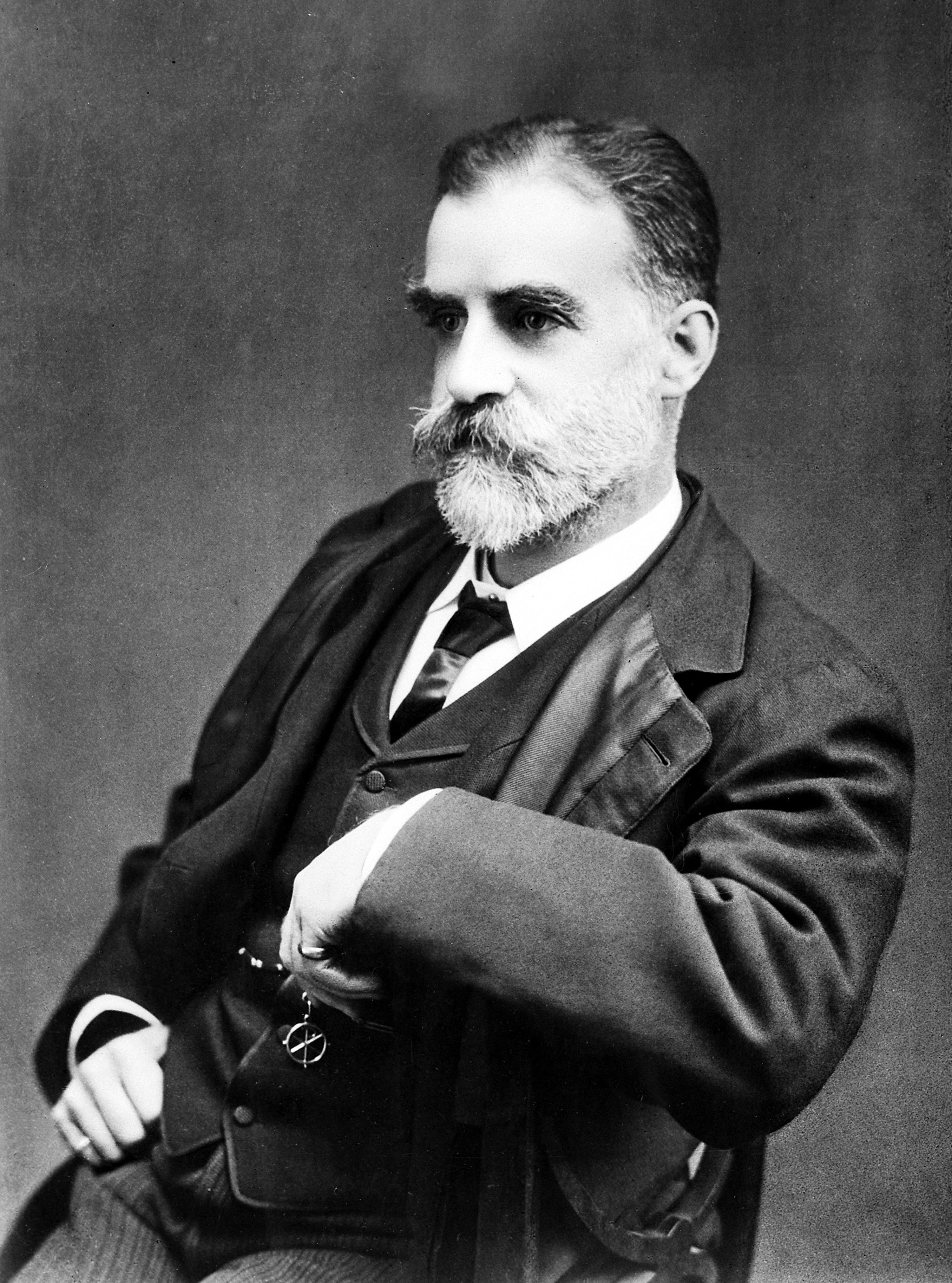 Sir Richard Thorne, from an original photograph in the possession of the Ministry of Health.